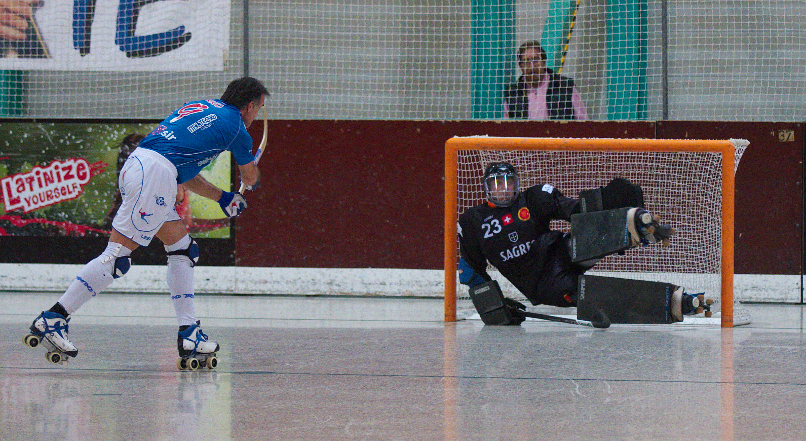 Rink-Hockey Euroleague 2012-2013 - Genève vs Hockey Valdagno